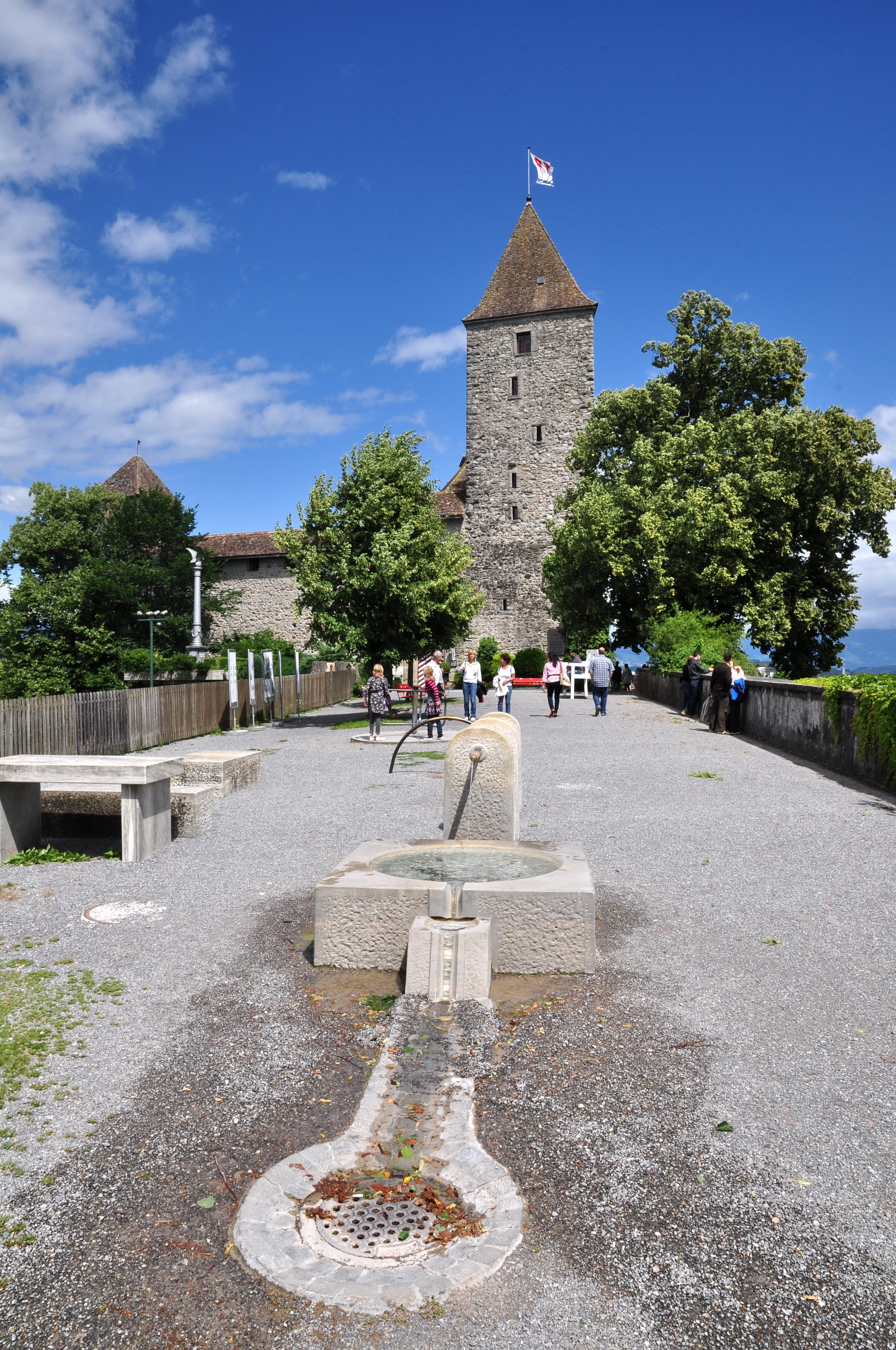 Schloss (castle) in Rapperswil (Switzerland) as seen from Lindenhof